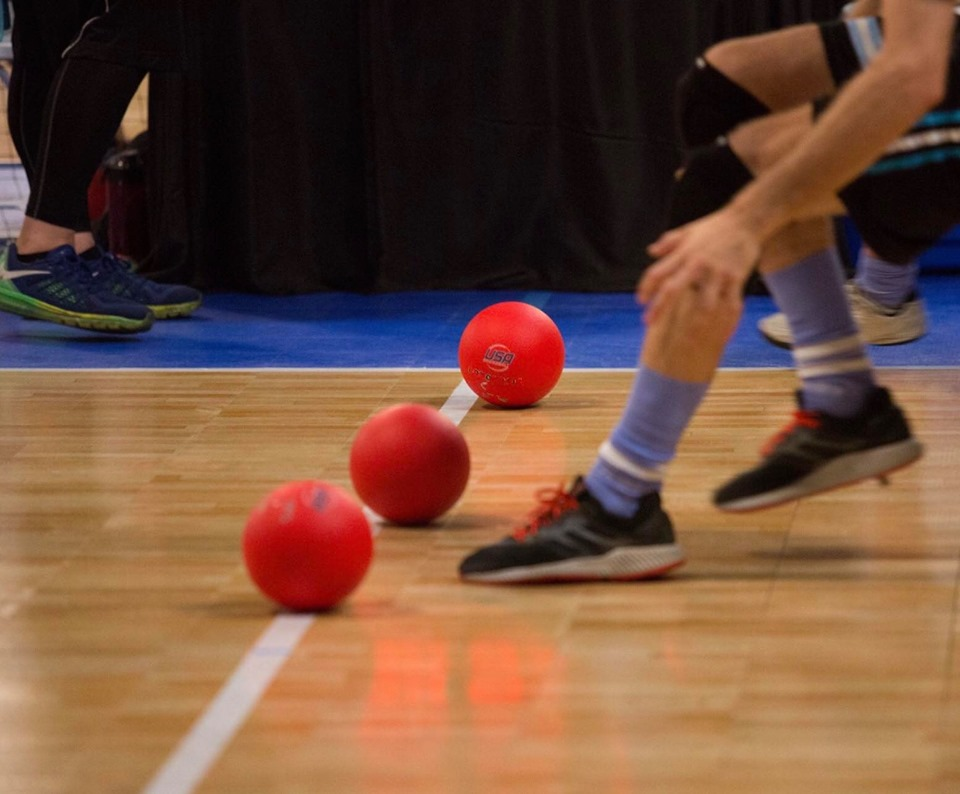 dodgeball